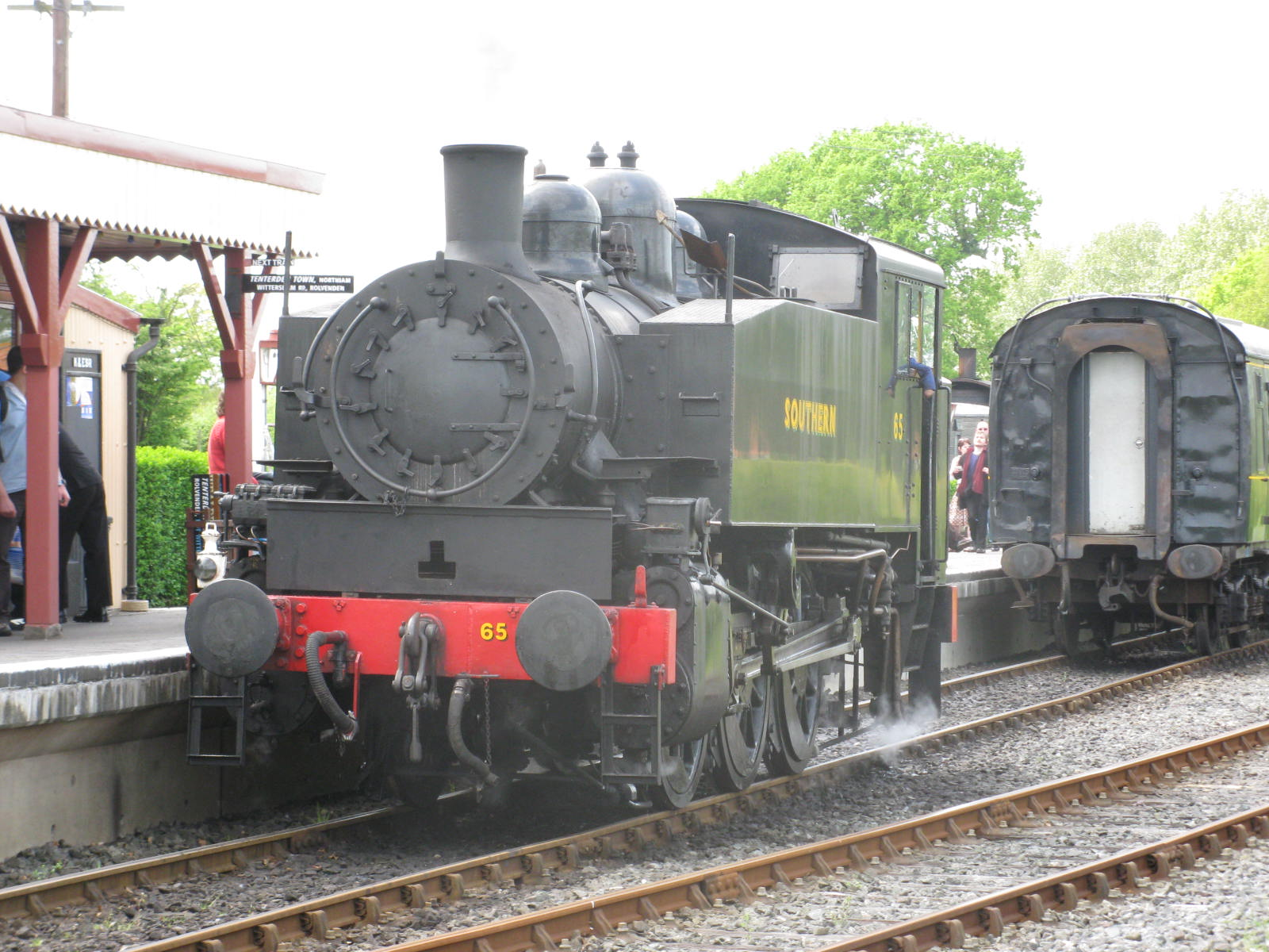 K&ESR locomotive No.22 Maunsell in Southern Railway livery carrying her original SR number 65. Picture taken at Bodiam station.